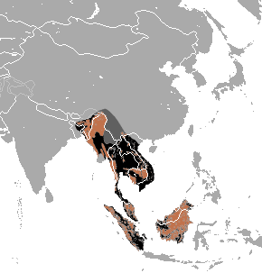 Sun Bear (Helarctos malayanus) range: extant former presence uncertain